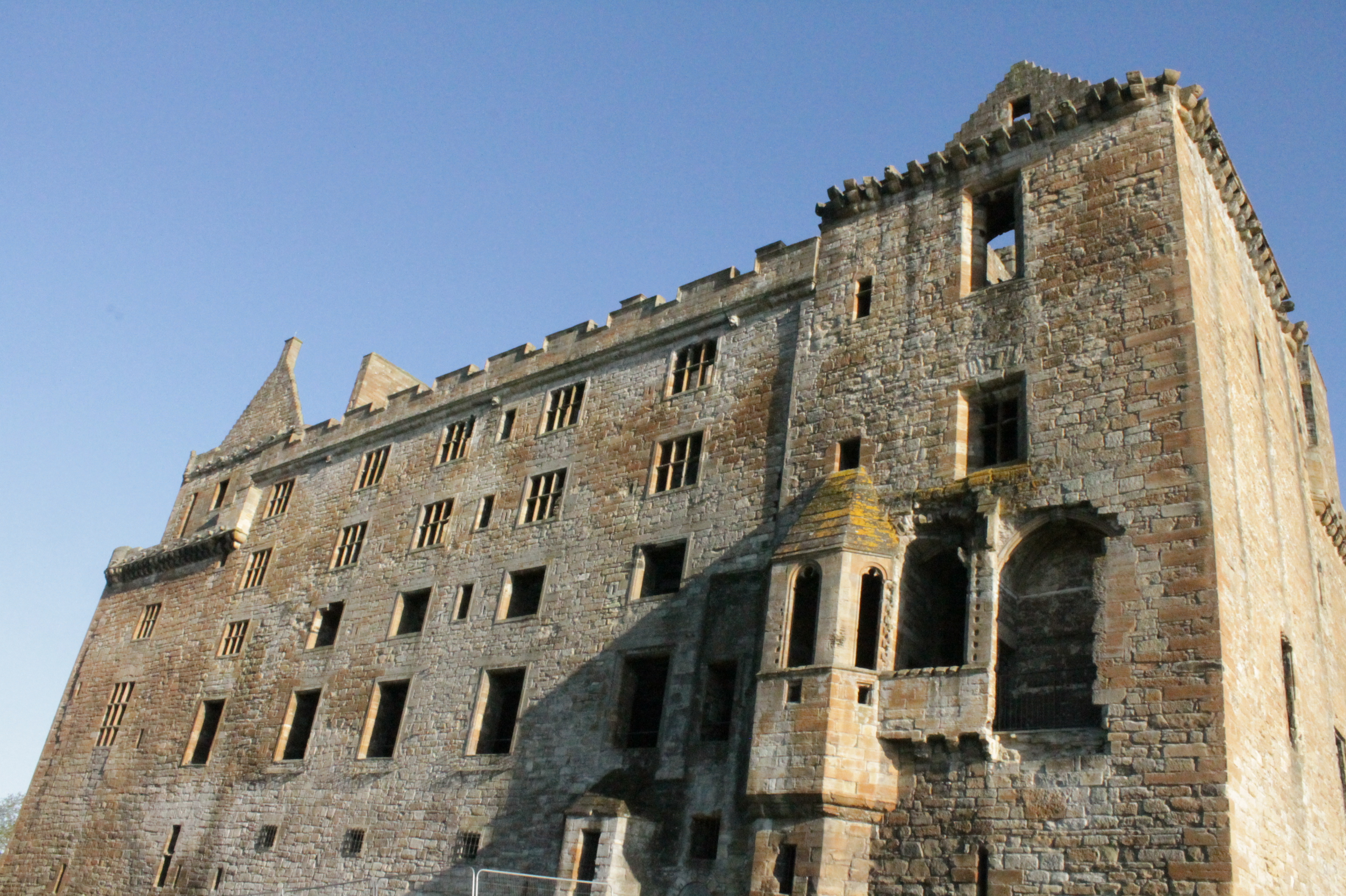 North side of Linlithgow Palace on a sunny evening